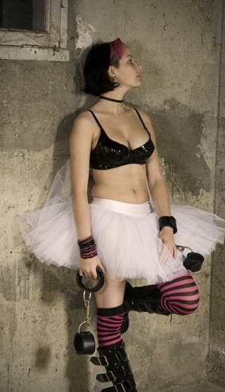 Do you know what I think ?